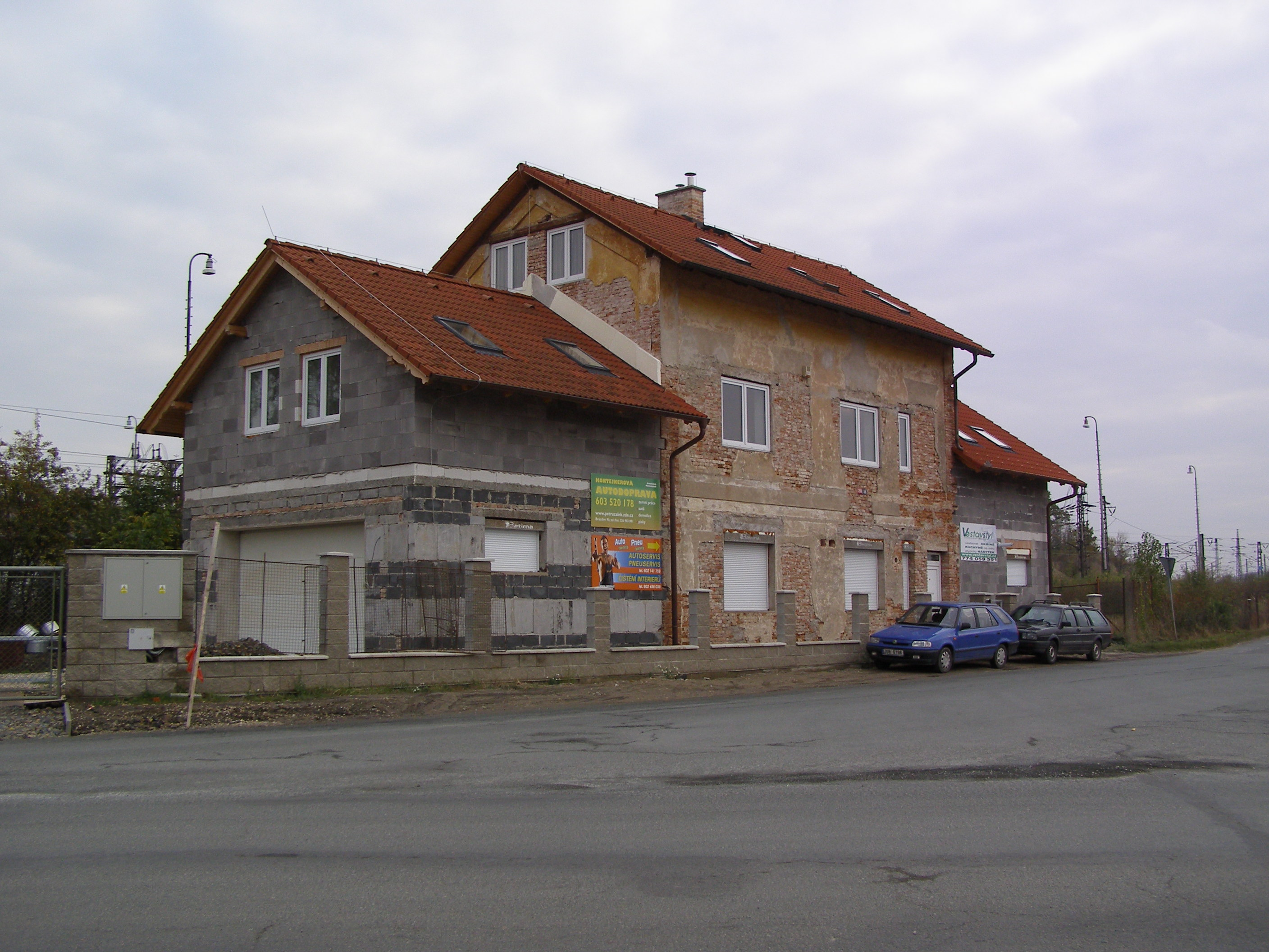 Celakovice - rail station